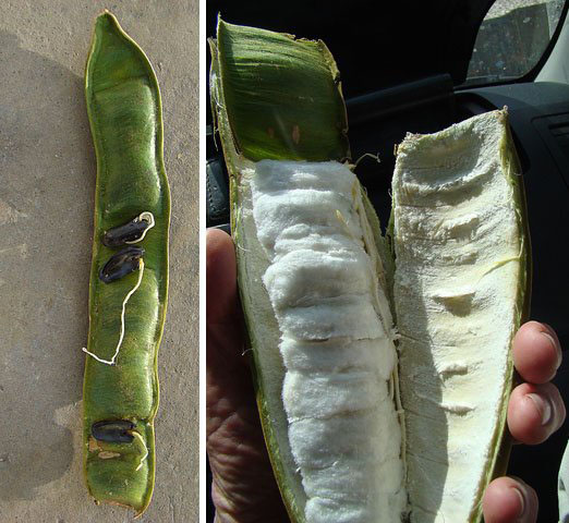 Native to the Andes from Columbia to Peru and known as Pacay. The white seed coating is a sweet treat.